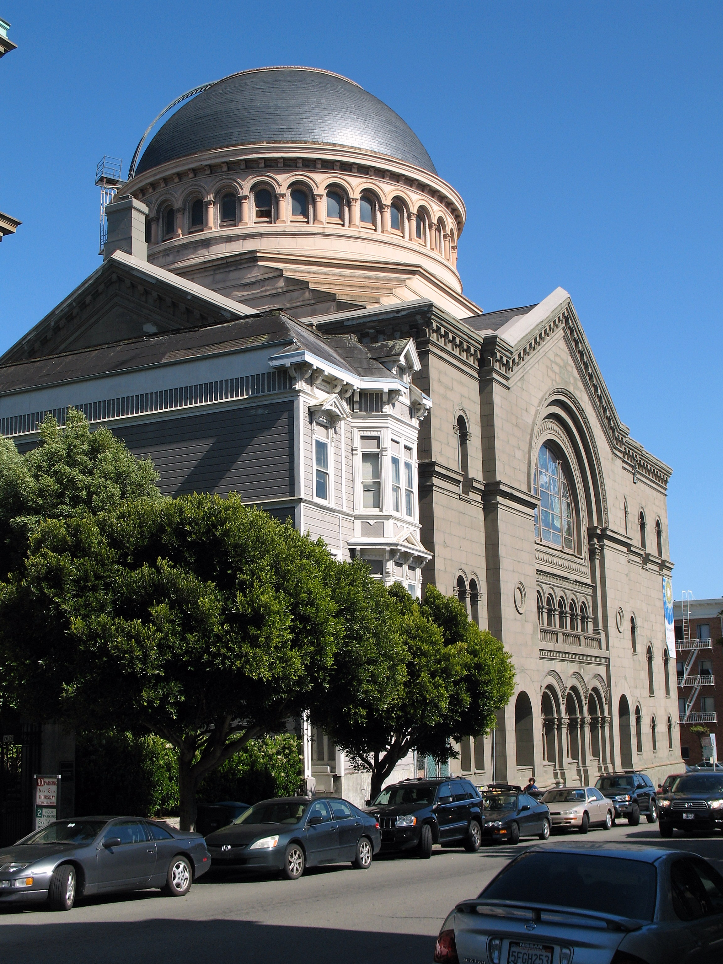 National Register of Historic Places listings in San Francisco, California. Temple Sherith Israel, 2266 California St., San Francisco, California